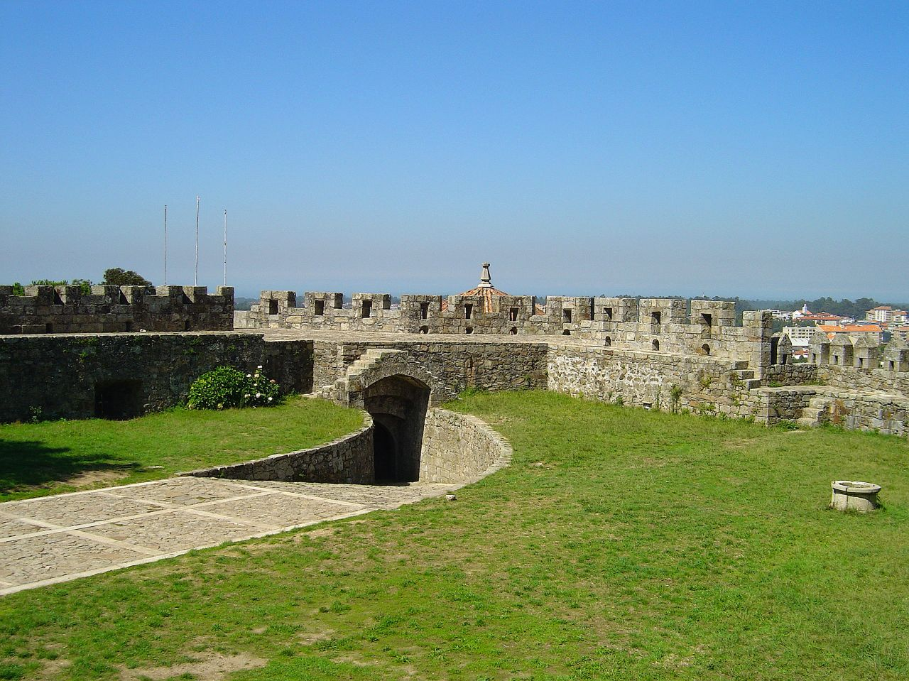 See where this picture was taken. [?]